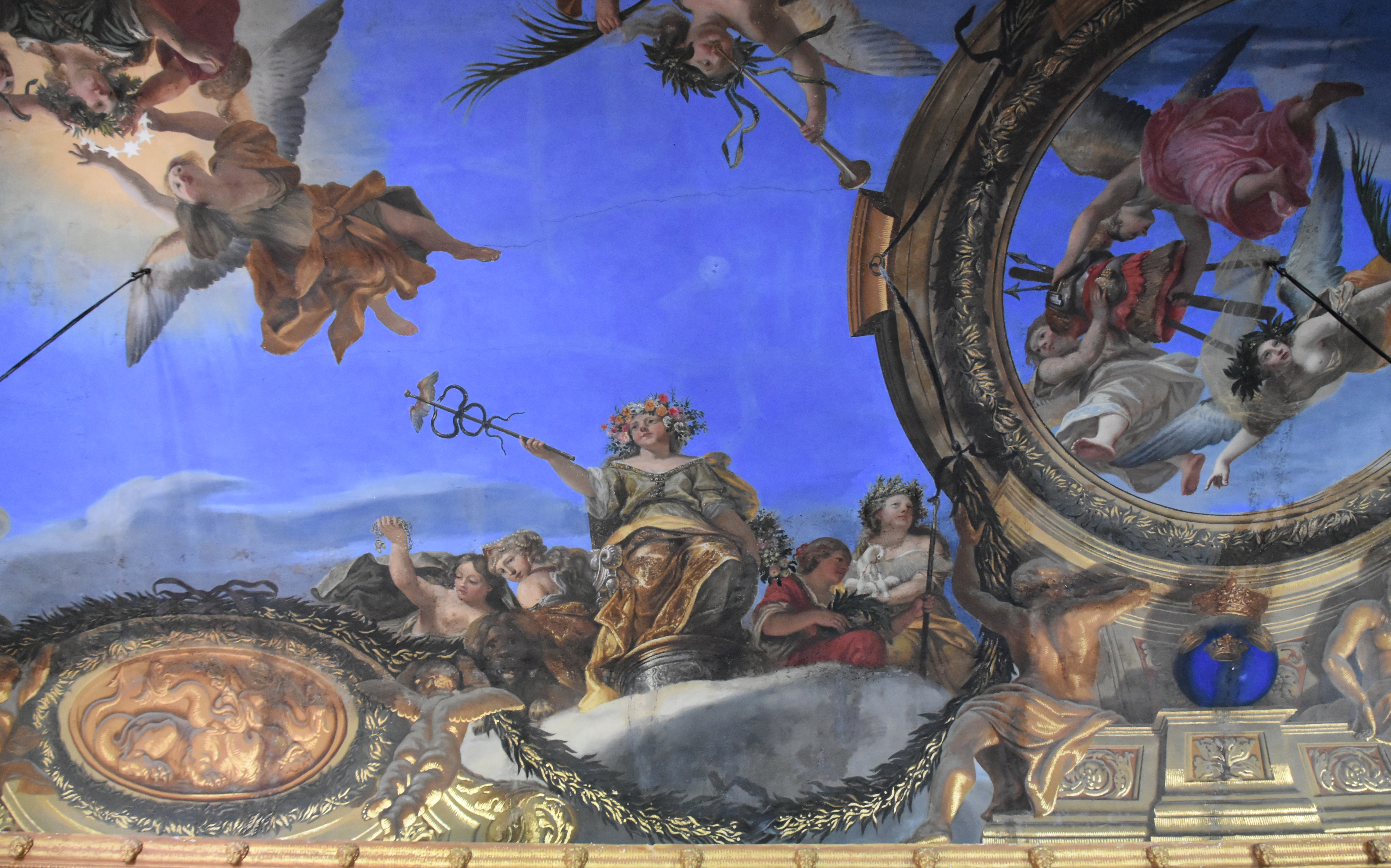 Drottningholm Palace, 17th century (49). The painting in the ceiling in Charles XI's gallery (in Swedish "Karl XI:s galleri") was performed by Johan Sylvius in 1689-1690 after a developed program with the theme "The Vitue and the Burden" (in Swedish "Dygden och lasten") by Nicodemus Tessin the younger.